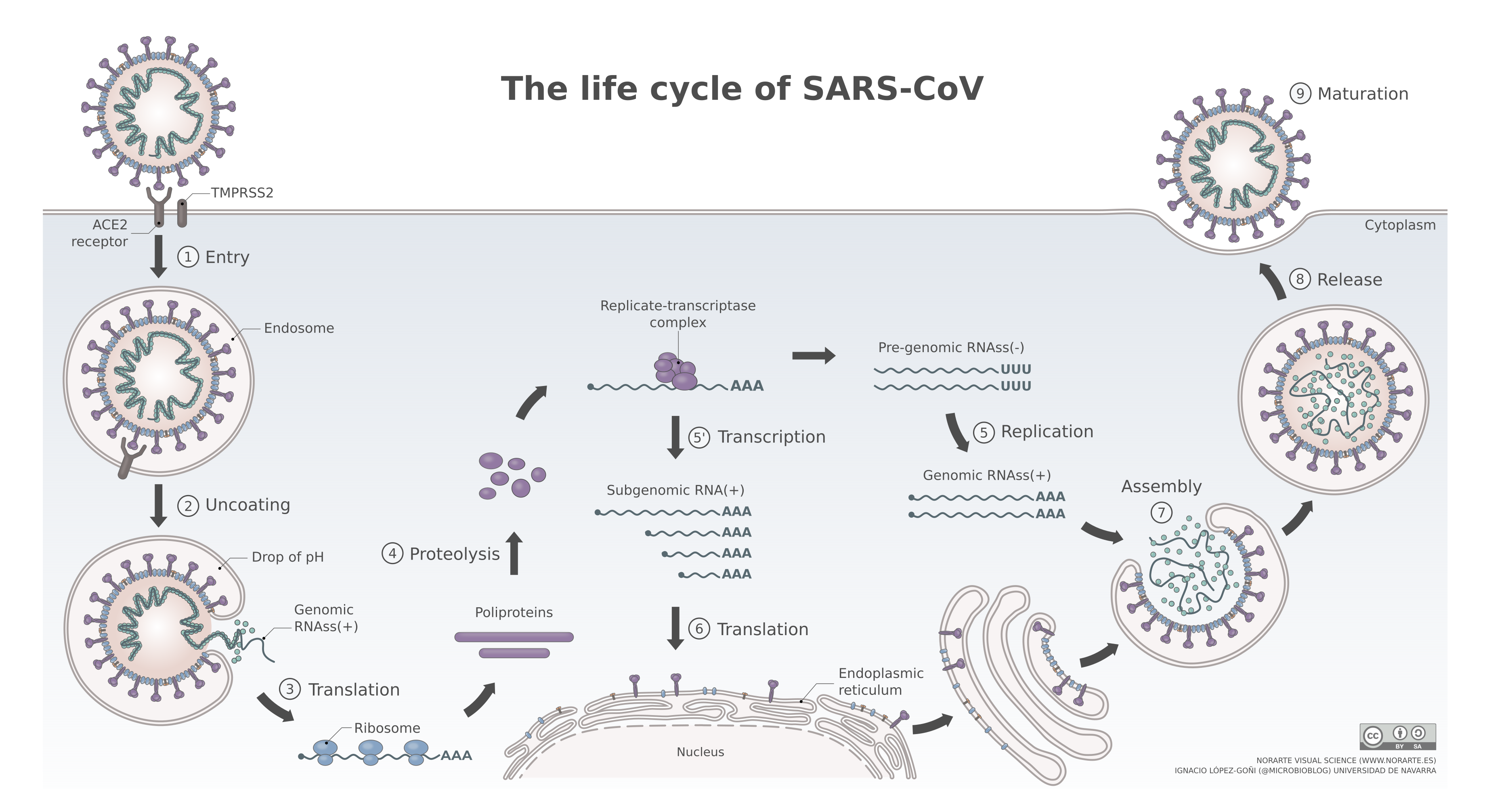 Glycoprotein S, located in the virus envelope, interacts with the cellular receptor ACE2 and the virus enters the host cell by endocytosis. Once in the endosome, a lysosome-mediated pH drop occurs, promoting fusion of the endosome membrane with the virus envelope, releasing the nucleocapsid into the cytoplasm. Cellular proteases degrade the capsid and the virus genome is left free in the cytoplasm. Next, being a positive-sense RNA genome, the cellular machinery directly translates the polyproteins, which are then processed and the replication and transcription complex is formed. The complementary strand of negative-sense pre-genomic RNA is then synthesized and serves as a template to replicate the positive-sense viral genome. Furthermore, replication and transcription complex synthesized a number of smaller, positive-sense subgenomic RNAs, which are translated into viral proteins. This entire process occurs in the cytoplasm of the cell. The structural proteins are synthesized in the endoplasmic reticulum where assembly subsequently occurs. In fact, the virus envelope comes from the endoplasmic reticulum membrane. The viral particle travels to the surface, through the cellular vesicle transport system in which the Golgi apparatus intervenes. The viral particle leaves the cell by exocytosis. After a final phase of maturation, in which viral proteases are involved, all the components of the virus fit together, the particle is infectious and a new cell cycle may begin. Reference: SARS and MERS: recent insights into emerging coronaviruses. de Wit E, van Doremalen N, Falzarano D, Munster VJ. Nat Rev Microbiol. 2016 Aug;14(8):523-34.